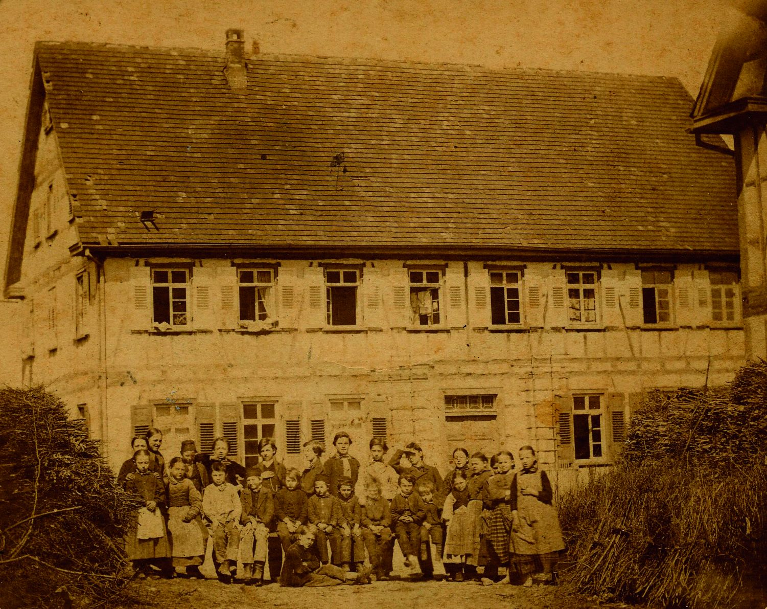 Community Hall of the Temple Society in Kirschenhardthof in the year 1866